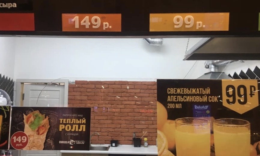 Three ruble sign versions in the same cafe